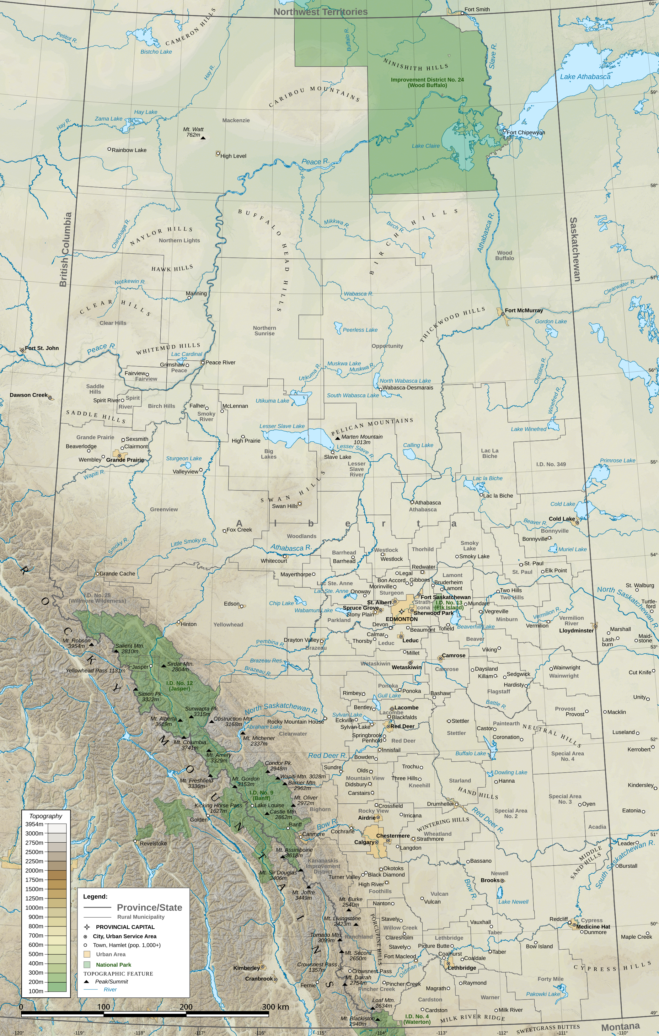 A topographic map of the province of Alberta, Canada, with cities, towns, rural municipalities, and natural features.